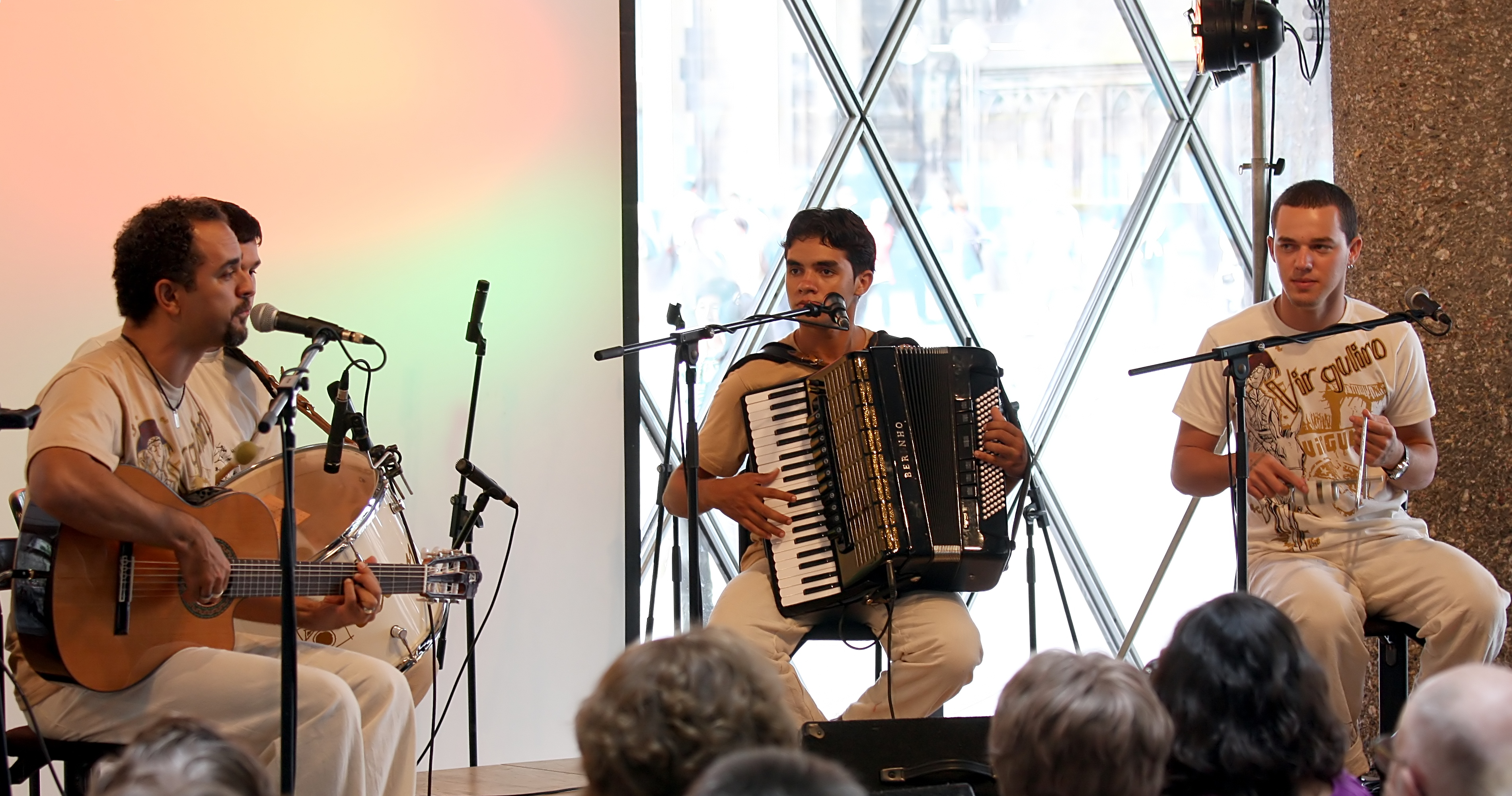 Valdir Santos and three members of his band performs in Cologne, Domforum